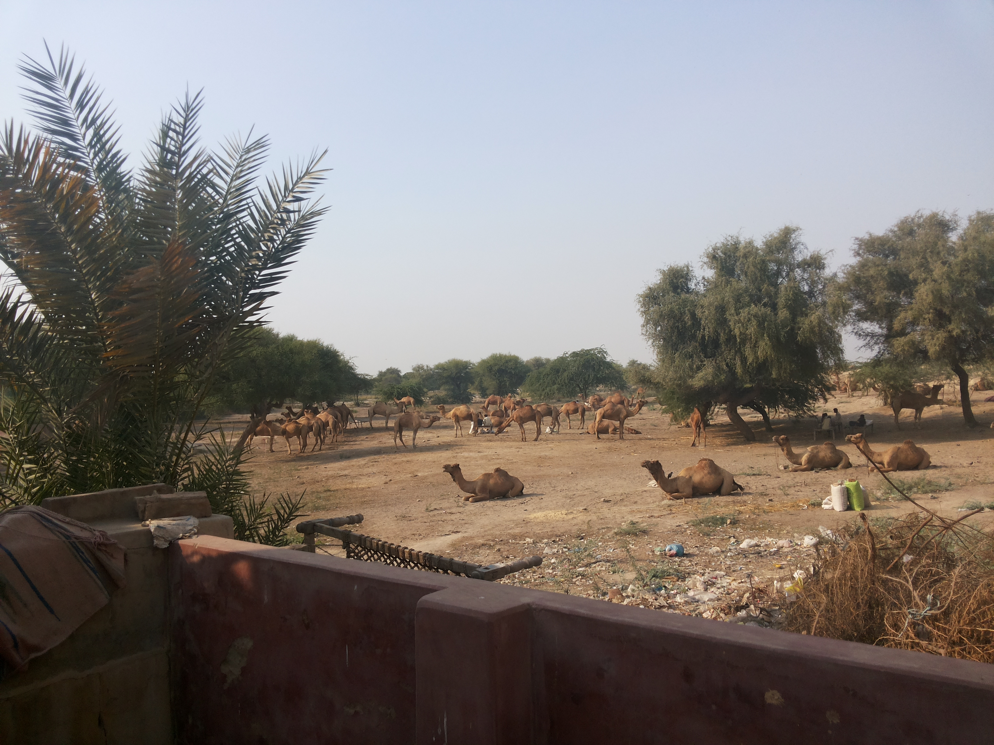 Herd of Camels in Tharparkar Desert in District Umer Kot, Sindh, Pakistan